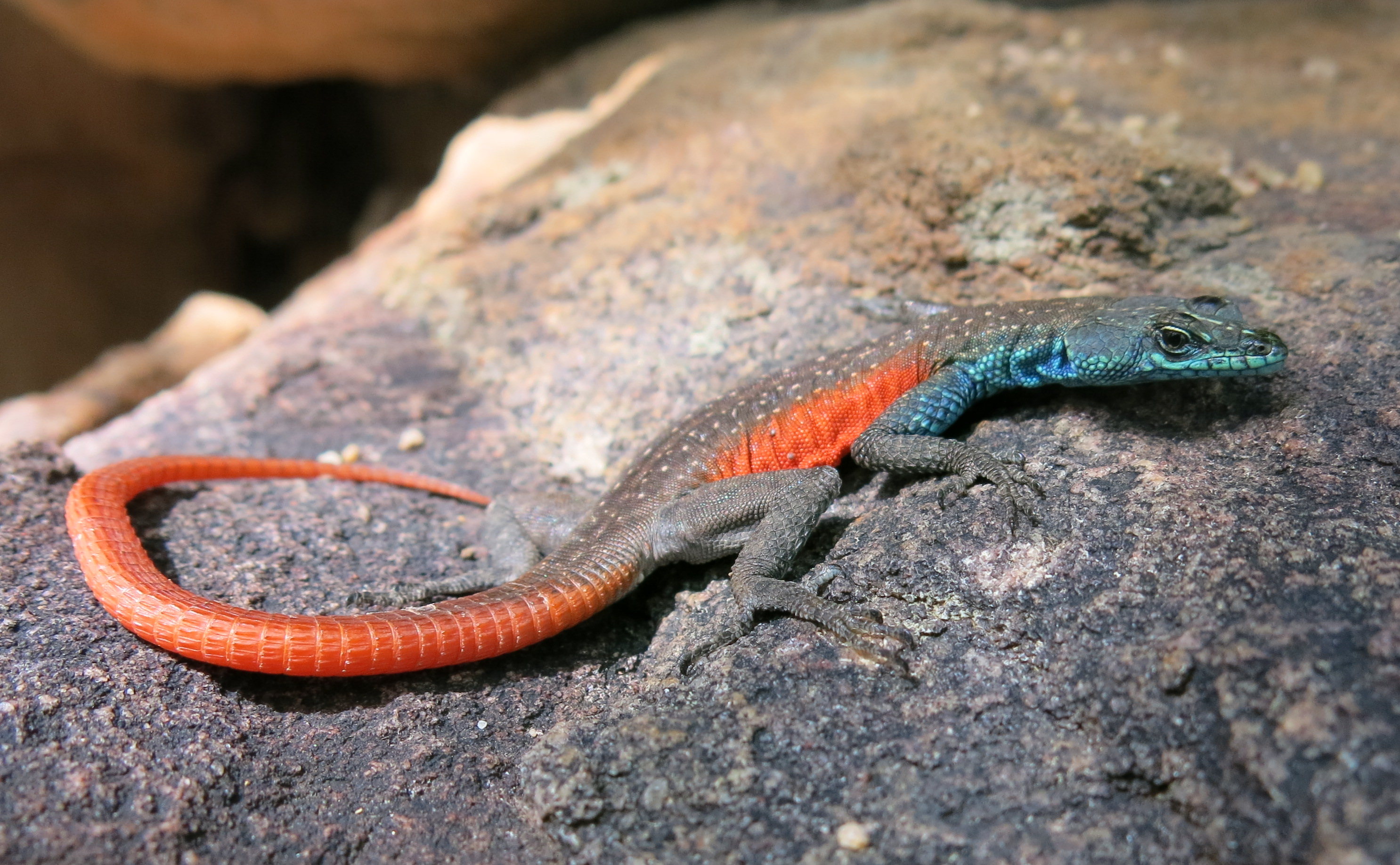 Platysaurus minor, Waterberg Girdled Lizard, Masebe, Limpopo, South Africa